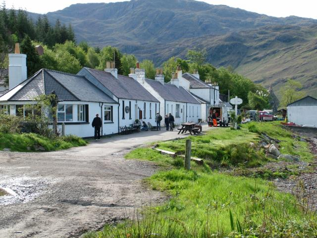 View of Inverie on the Knoydart peninsula.